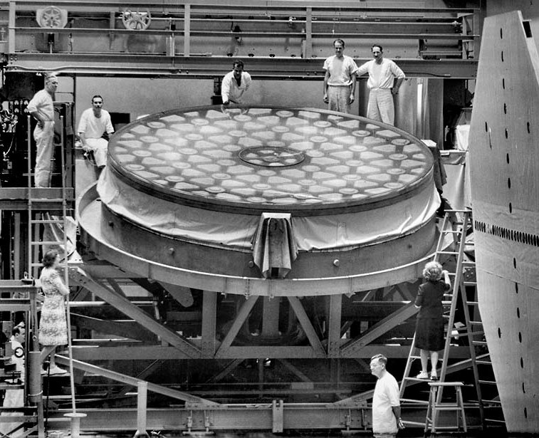 The mirror of the 200-inch Hale telescope at Mt. Palomar Observatory, California in the Caltech Optical Shop in Pasadena when grinding work was resumed following the end of World War 2. It is the largest single piece telescope mirror in the world. The mirror was cast of pyrex glass in 1923 at Corning Glass Works, New York. Grinding work was halted in 1942 due to pressing war work. The mirror was transported to Palomar Observatory in 1947 and the telescope was completed and saw first light in 1949. The honeycomb support structure on the back of the mirror can be seen through the surface.